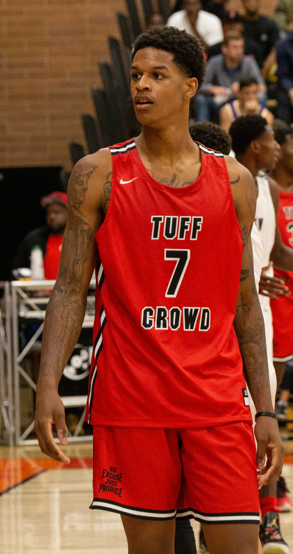 Shareef O'Neal playing with Tuff Crowd @The Drew